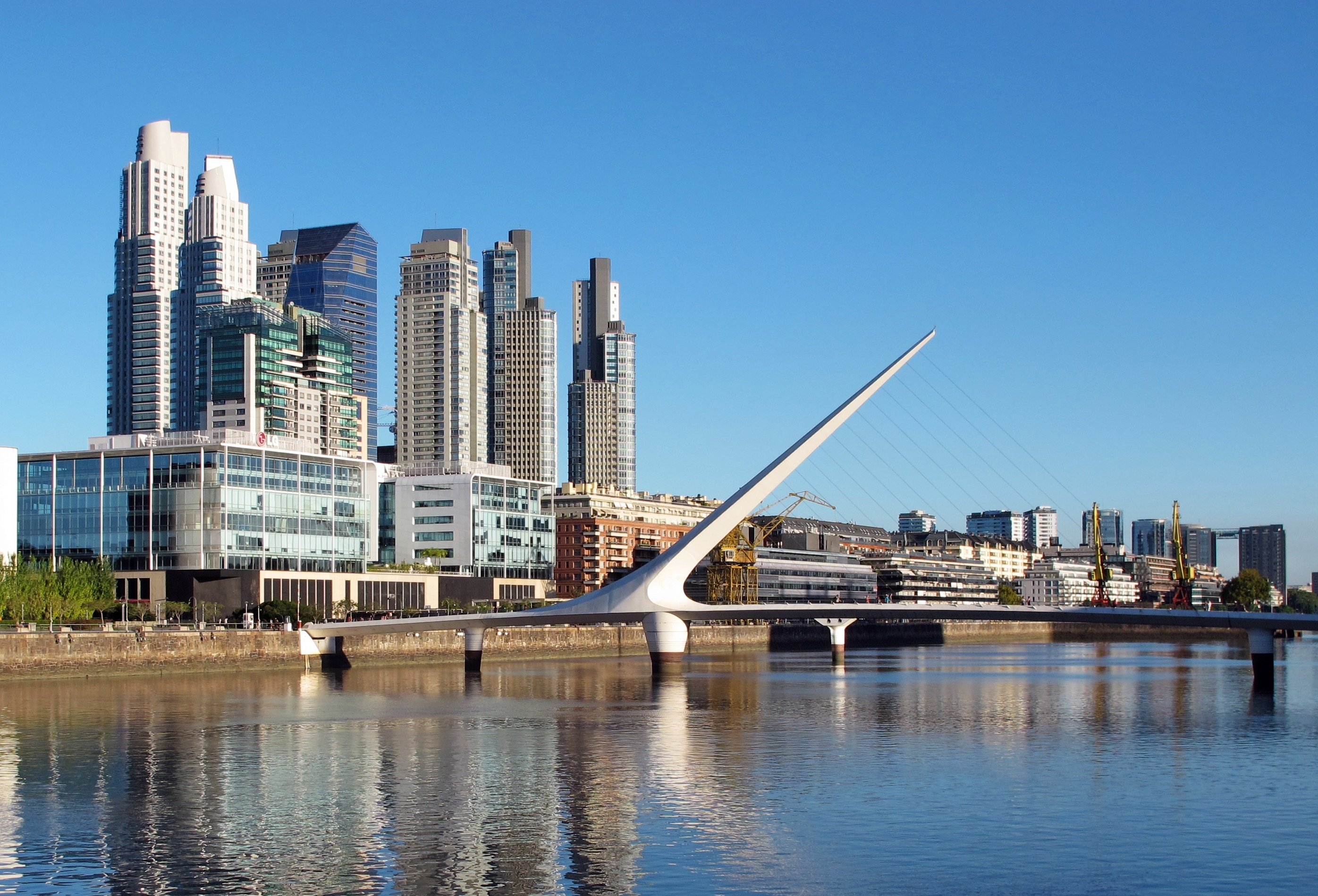 Buenos Aires - Puerto Madero